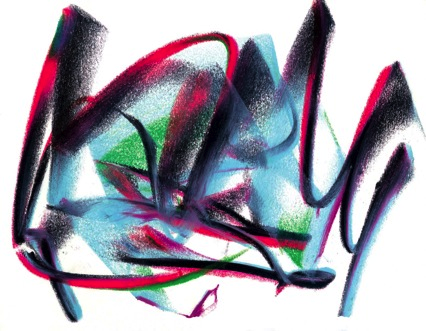 A Painting by JAS using a million color stick